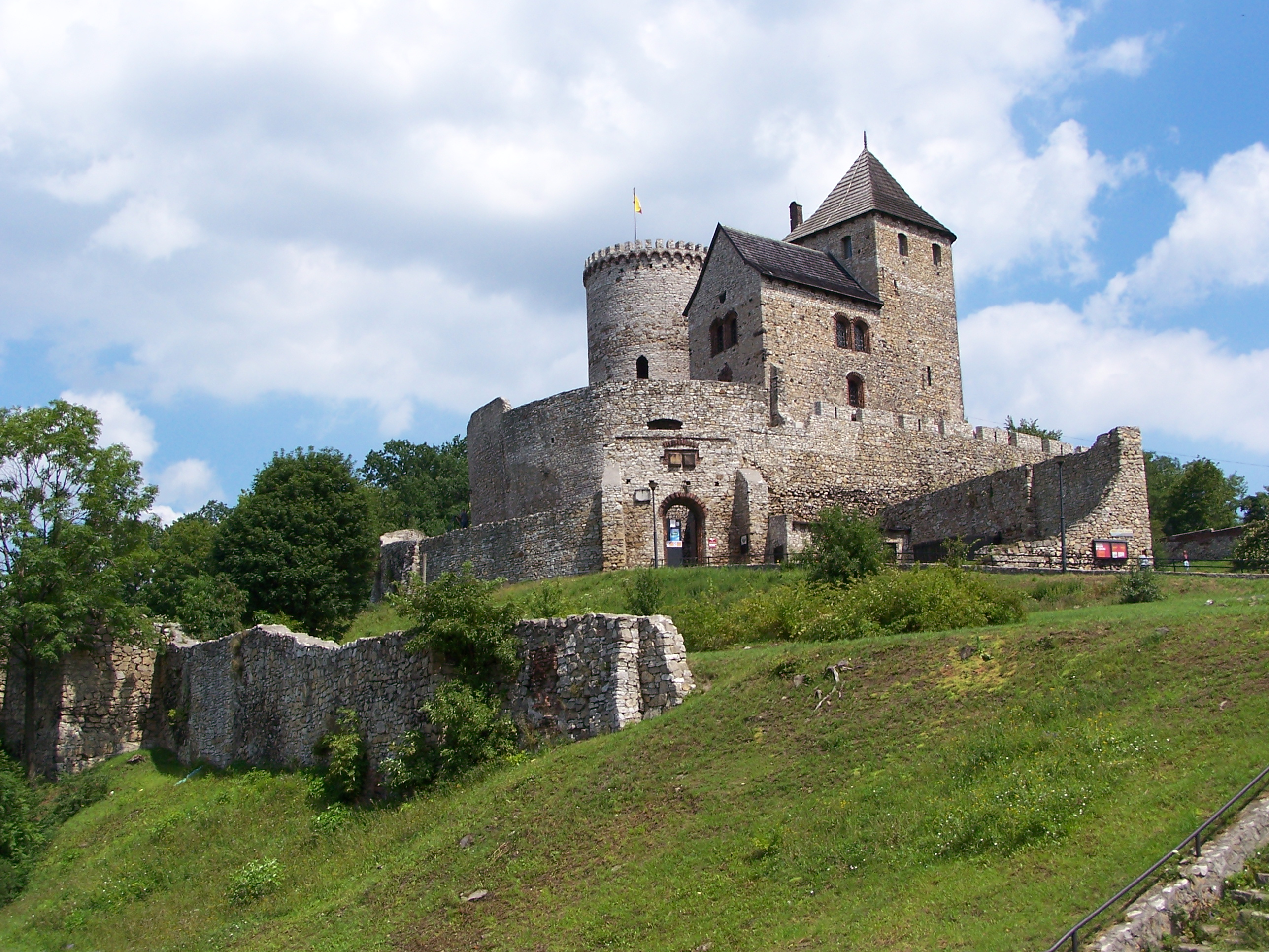 Castle in Będzin (Poland).